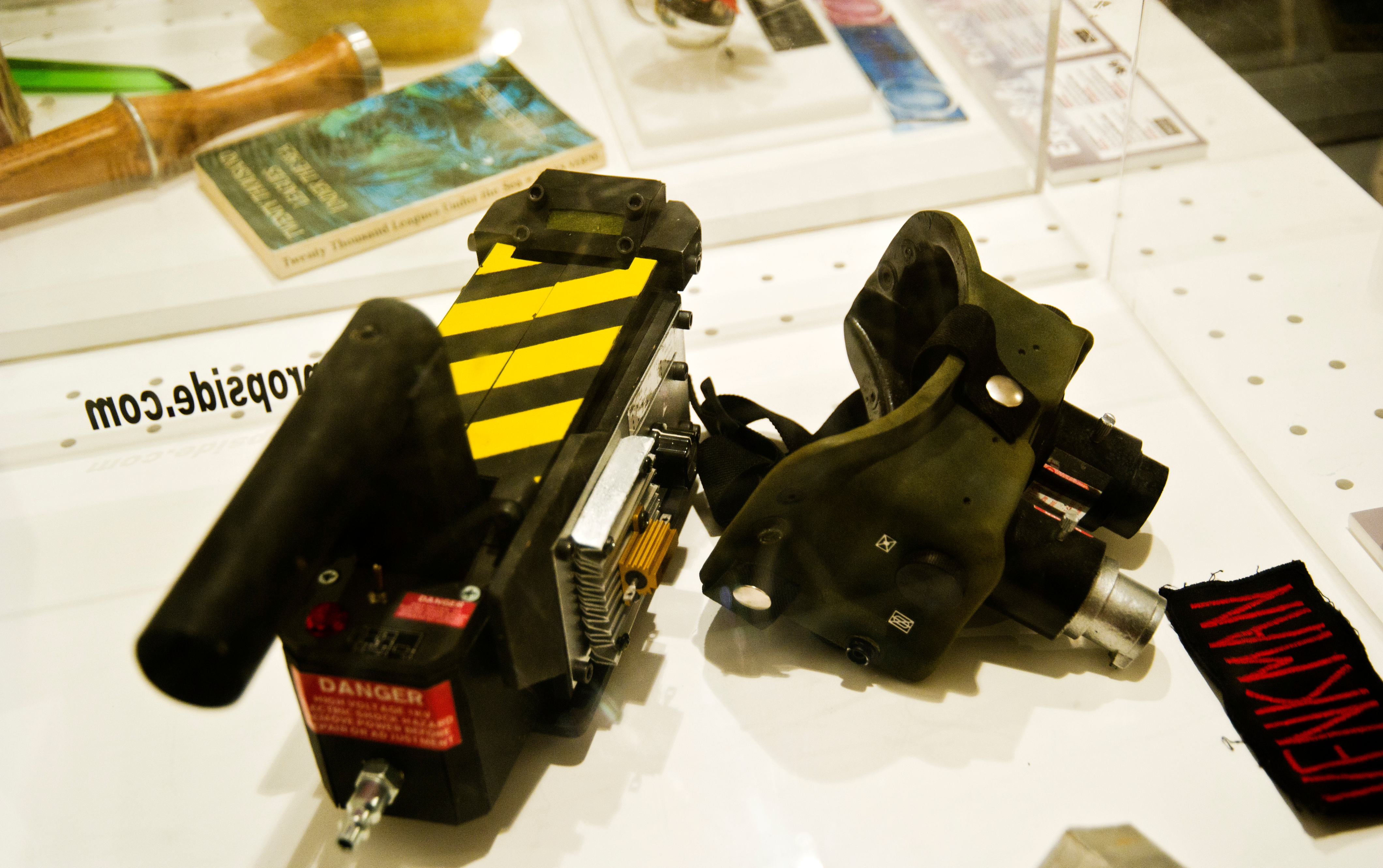 Prop replicas from the 1984 film Ghostbusters displayed at ExpoSYFY, San Sebastián, Spain. Ghost trap Ecto Goggles Identification of Peter Venkman (played by Bill Murray)